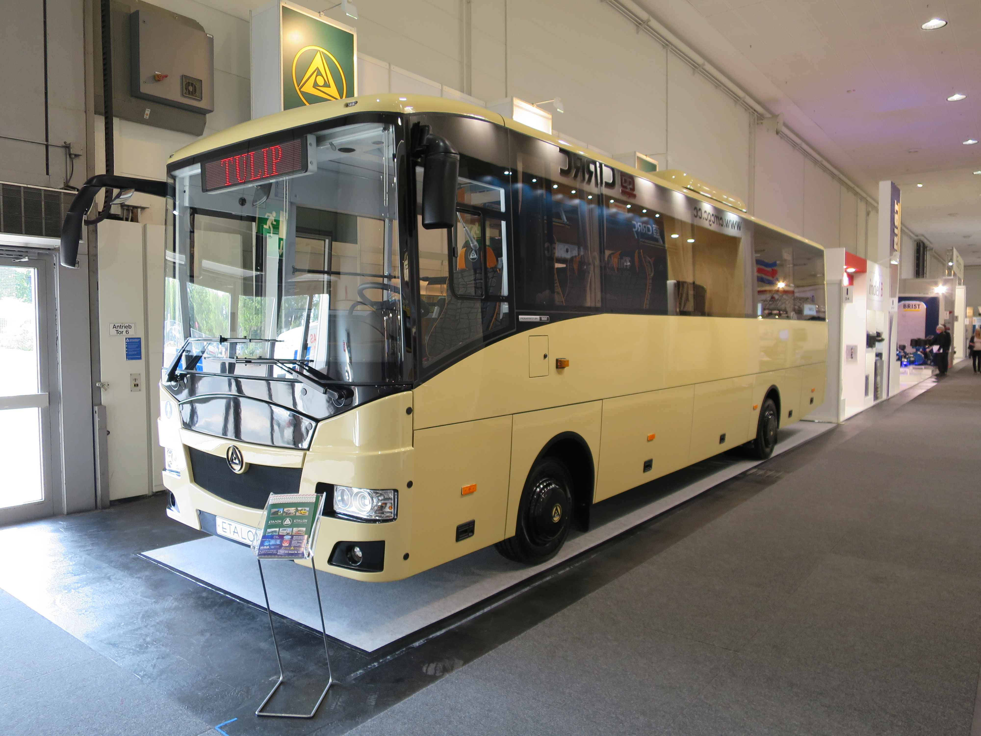 The making of this document was supported by Wikimedia Polska Association, within Wikigrant no. WG 2016-35. ETALON A084 TULIP